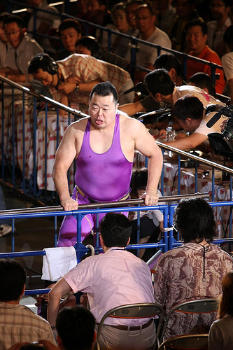 Yoji Anjo